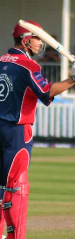 Marcus Trescothick acknowledges the applause for his 50